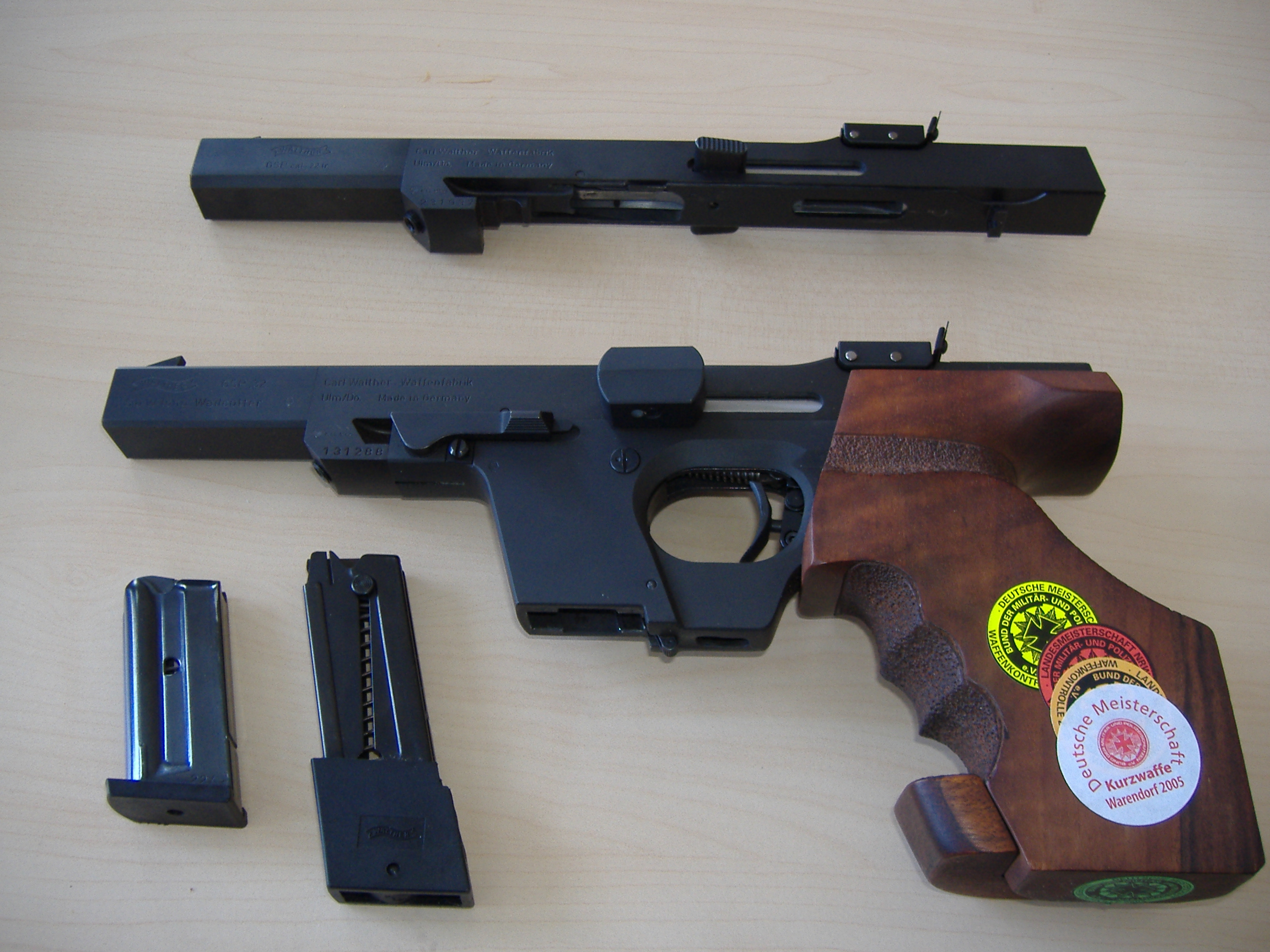 Walther GSP Sport-Pistol .22 l.r./.32 Smith&Wesson long Das oberes System und das linke Magazin sind für das Kaliber .22 lfB, das auf dem Griffstück befindliche System und das rechte Magazin sind im Kaliber .32 S&W long The system shown above the weapon and the left magazin are cal. .22 long rifle, the system shown with grip and trigger are for caliber .32 Smith&Wesson long. Also the right magazin ist made for this caliber.